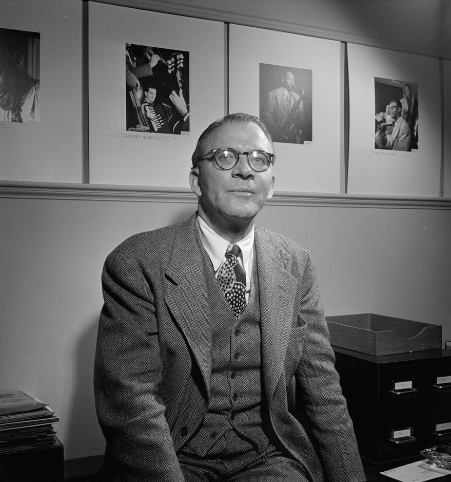 Jean Goldkette, William P. Gottlieb's office, New York